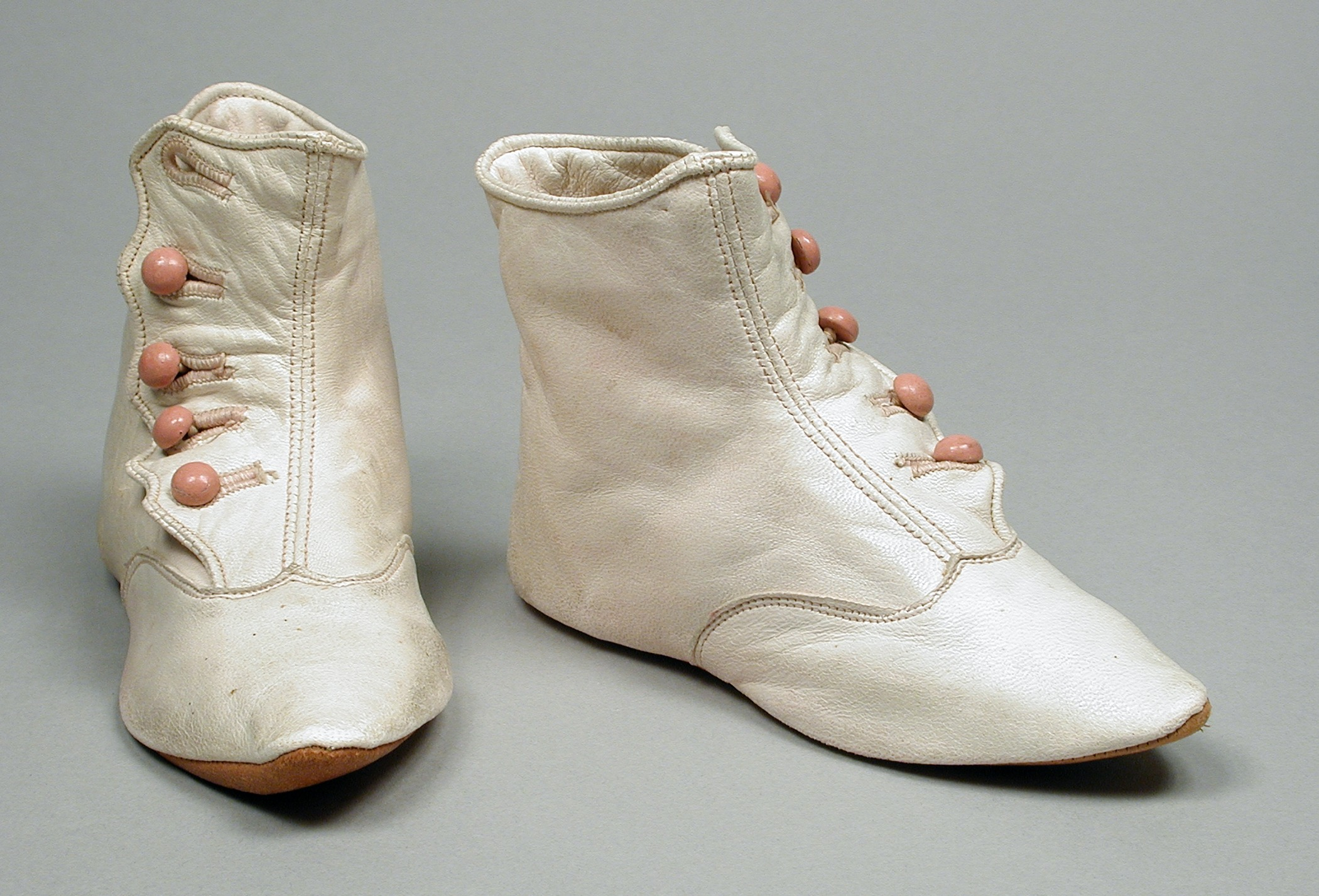 United States, 1890-1900 Costumes; Accessories Kid leather, leather 5 7/8 x 1 7/8 x 3 1/4 in. (14.92 x 4.76 x 8.25 cm) each Gift of Mr. and Mrs. Lynford Steward (M.54.21.4a-b) Costume and Textiles